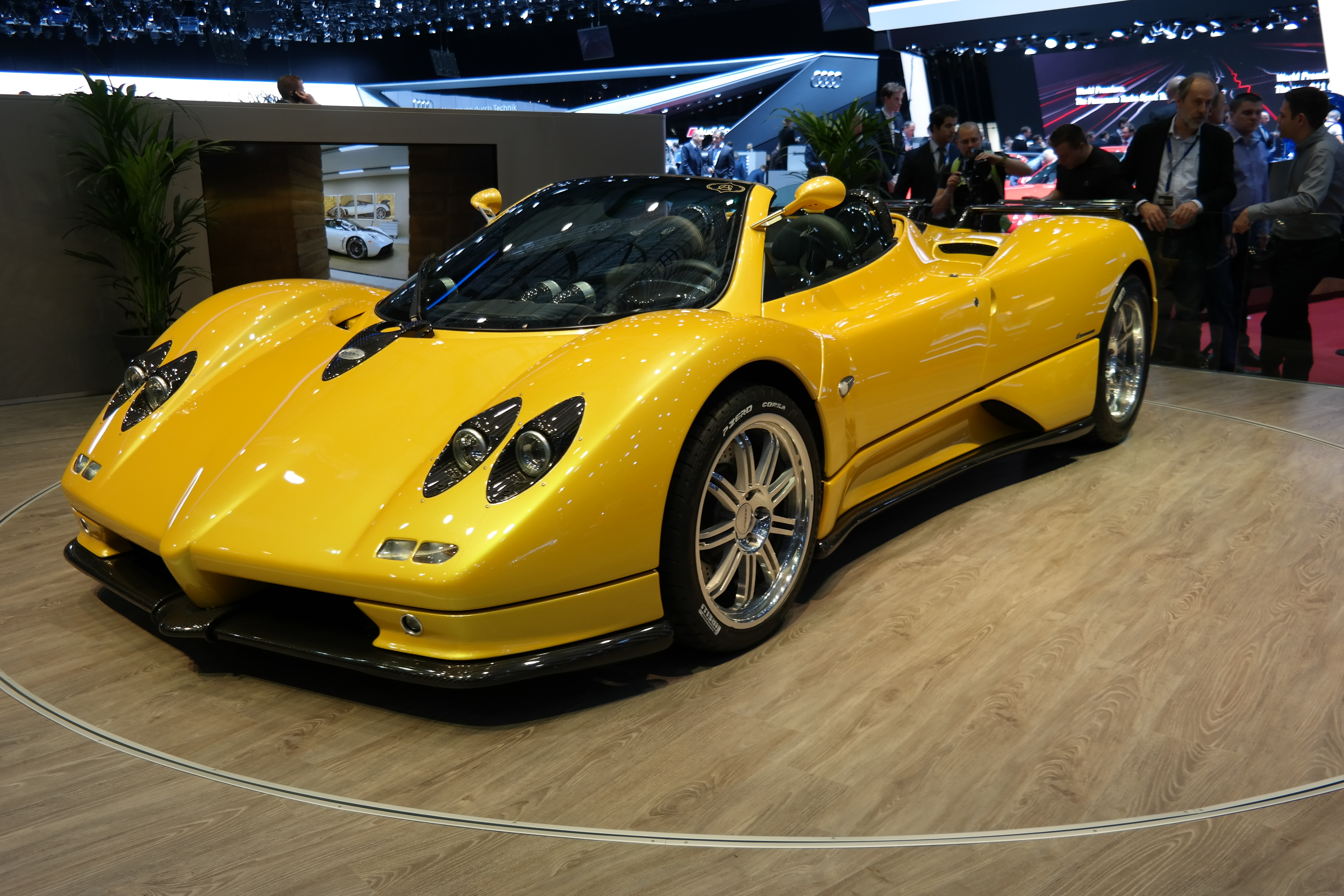 Geneva Motor Show 2017 (photo taken on the first press day)